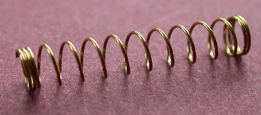 Taken by Dvortygirl, at home, 2006.